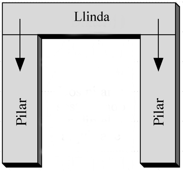 Lintel diagram — showing transference of force to pillars.